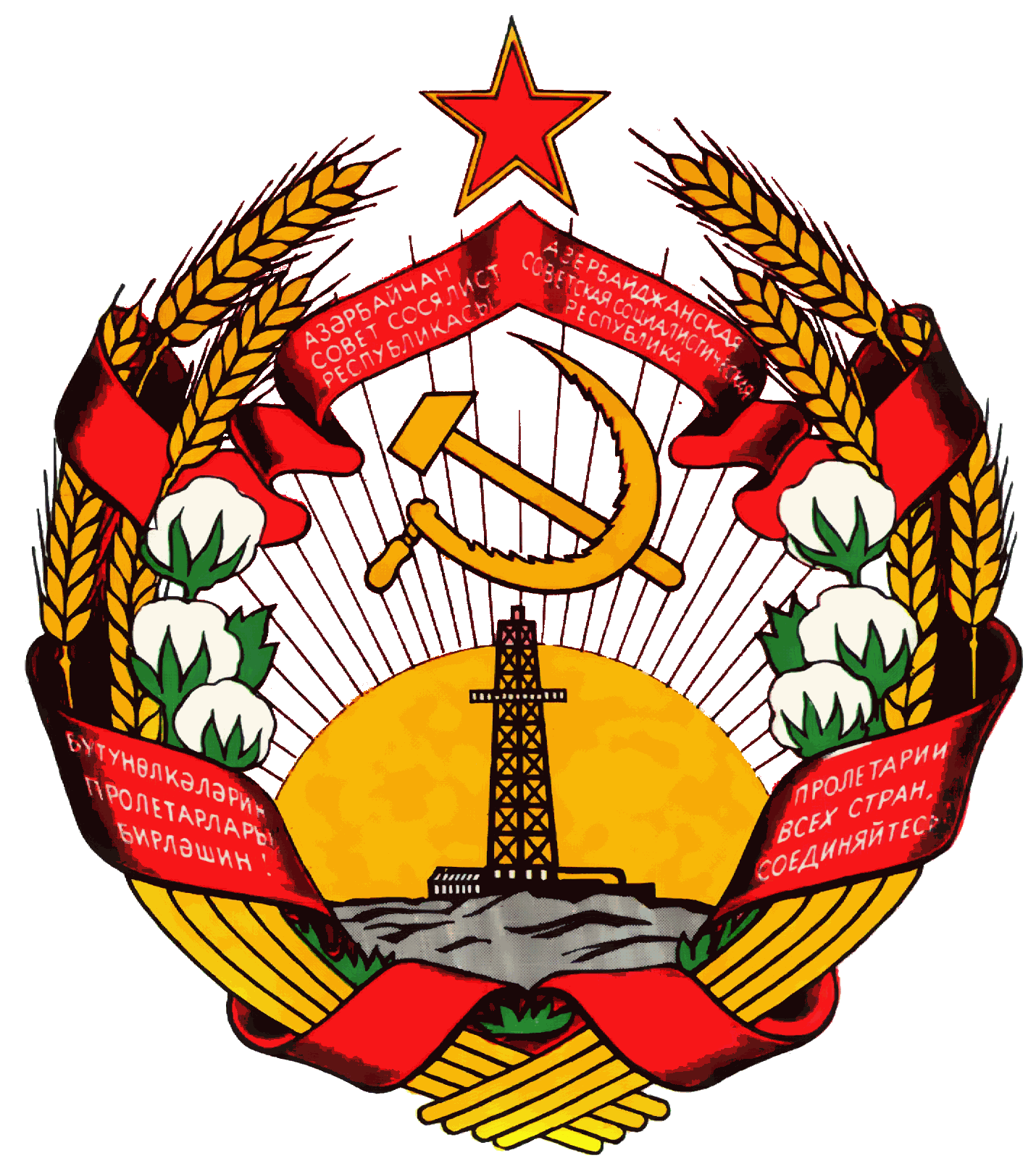 Coat_of_arms_of_Azerbaijan_SSR.png